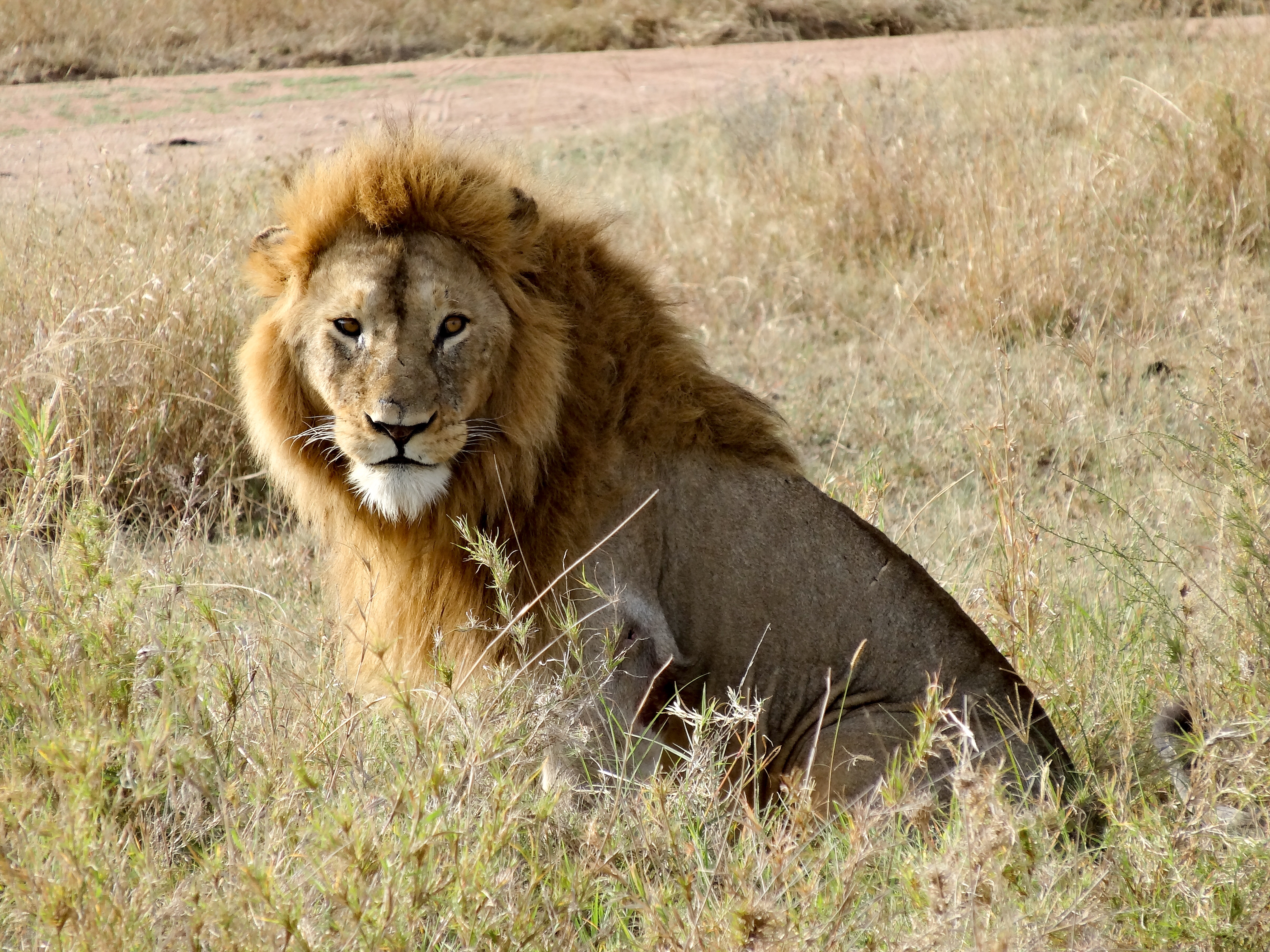 Lion in Serengeti protected area